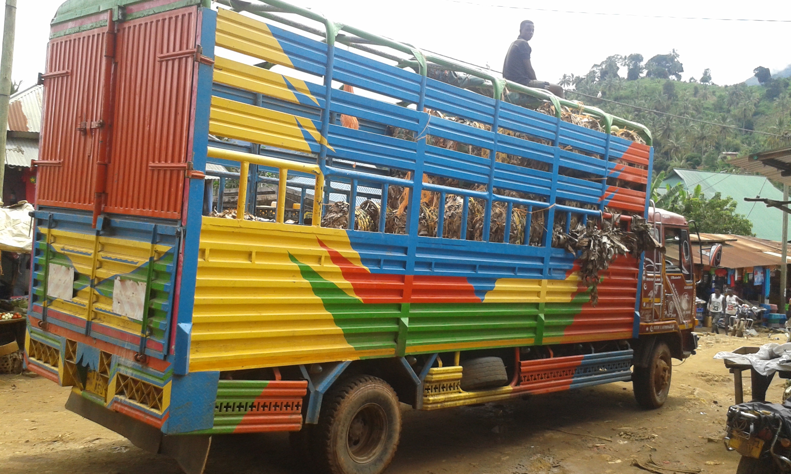 Truck in a village near Morogoro, Tanzania This is an image with the theme "Africa on the Move or Transport" from: Tanzania